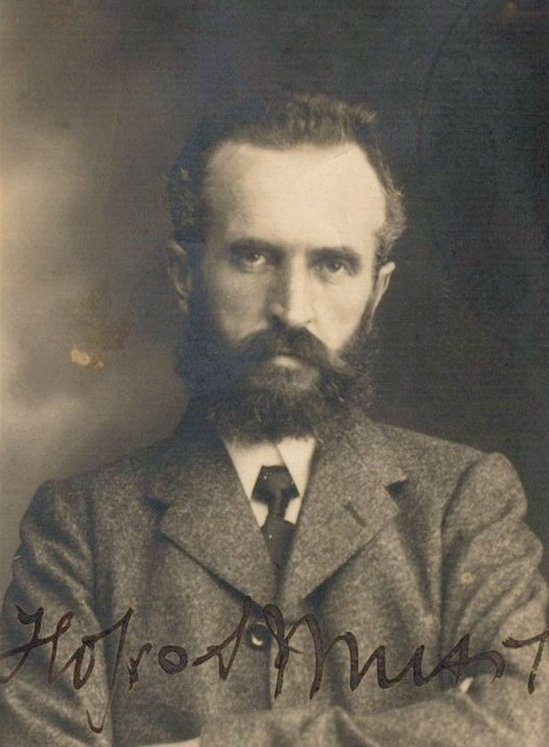 Alois Musil, 1914, passport photography